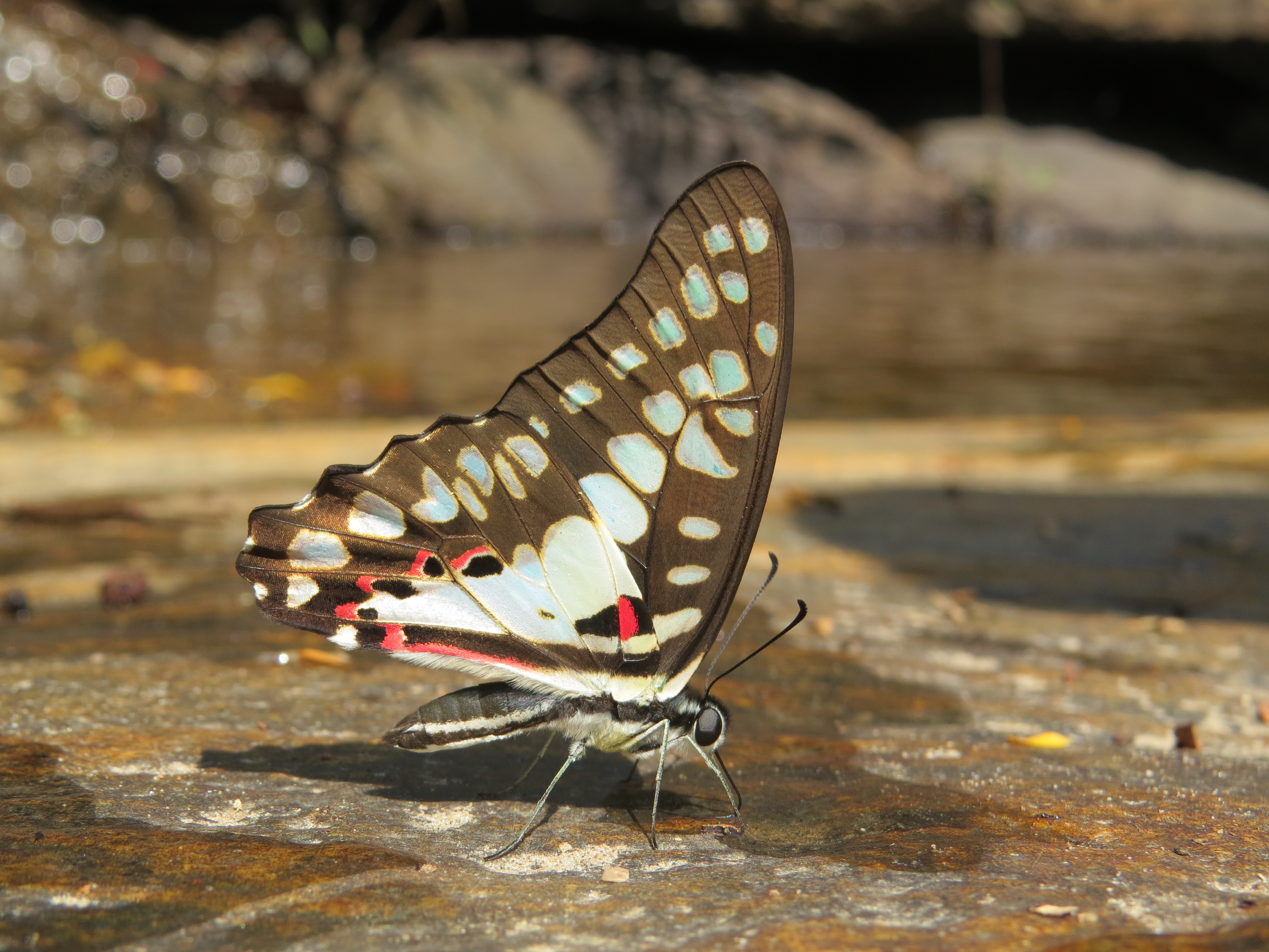 Graphium doson Felder & Felder, 1864 – Common Jay - Aralam Butterfly Survey 2016